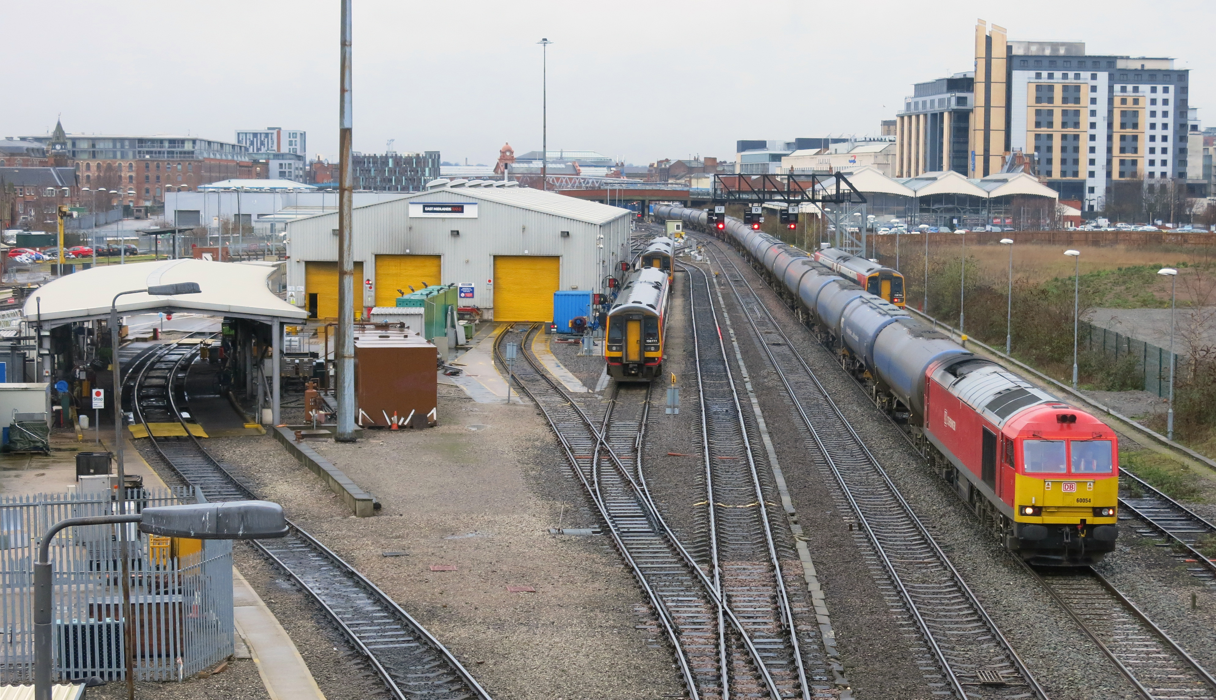 Class 60 no. 60055, passes Nottingham Eastcroft Stabling Point while hauling the 10:40 Kingsbury Oil Sdgs to Humber Oil Refinery empty tank wagons, 4th January 2014.